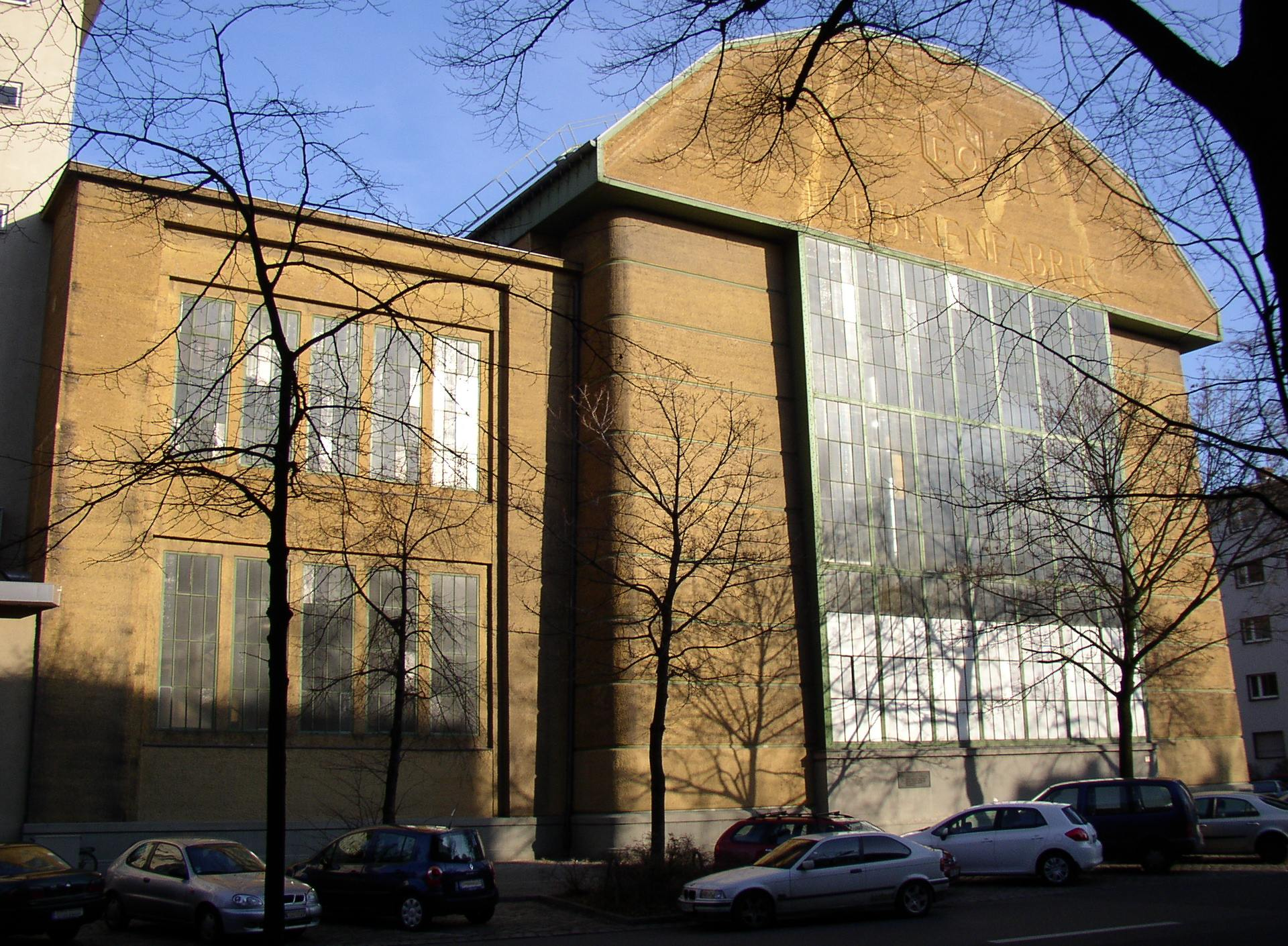 Former AEG factory in Berlin-Moabit, Germany